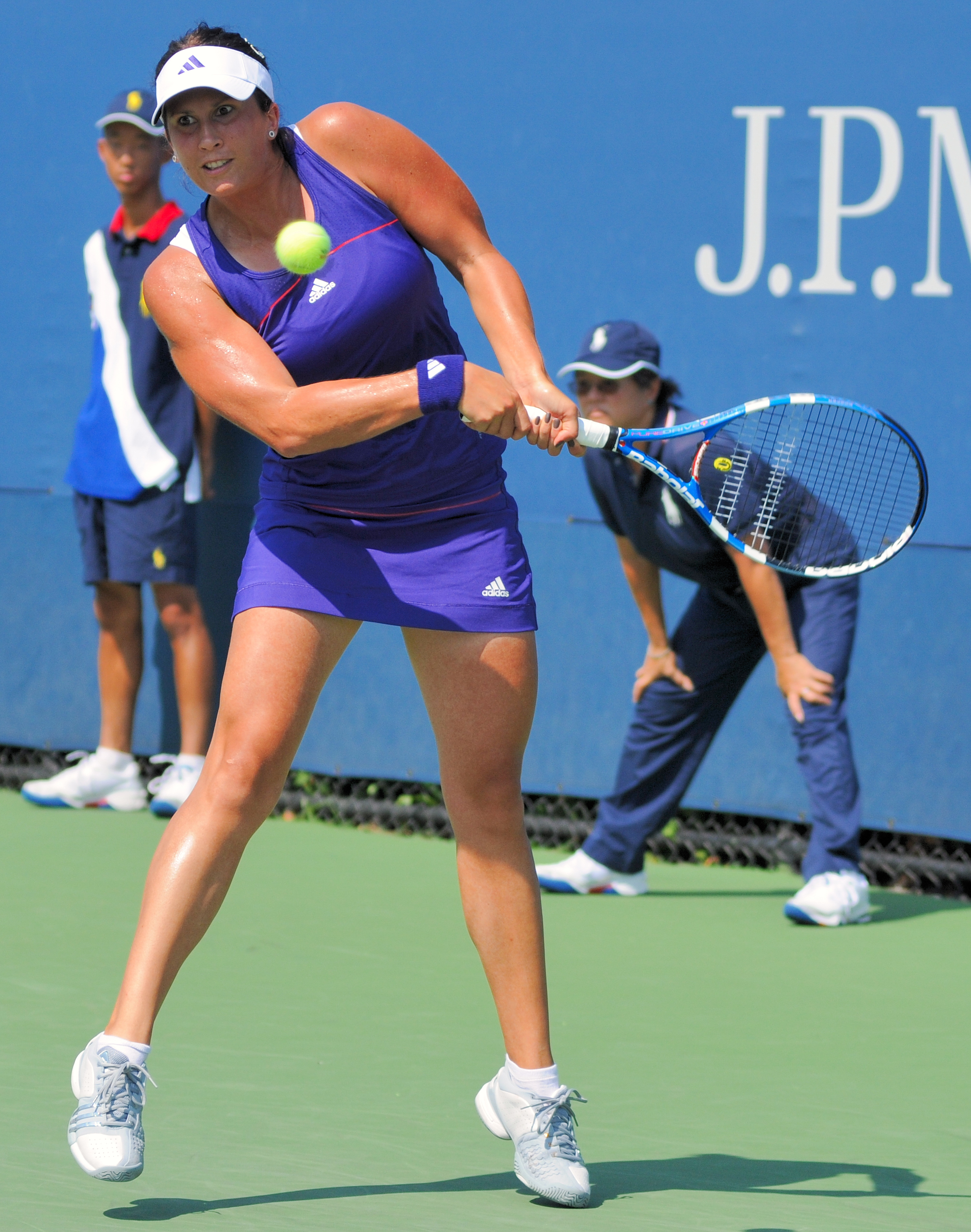 Sofia Arvidsson - US Open 2010